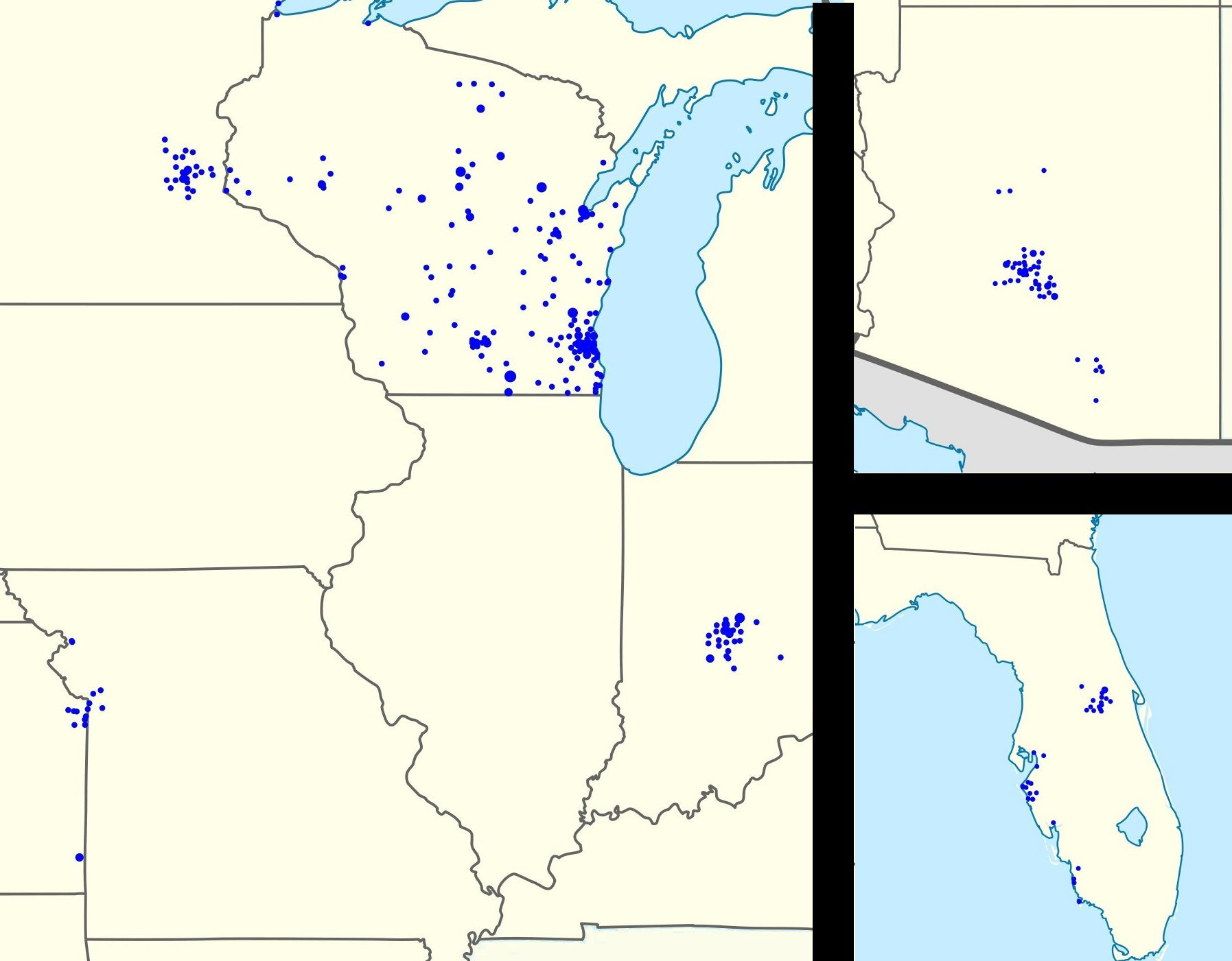 Footprint of traditional Marshall & Ilsley.